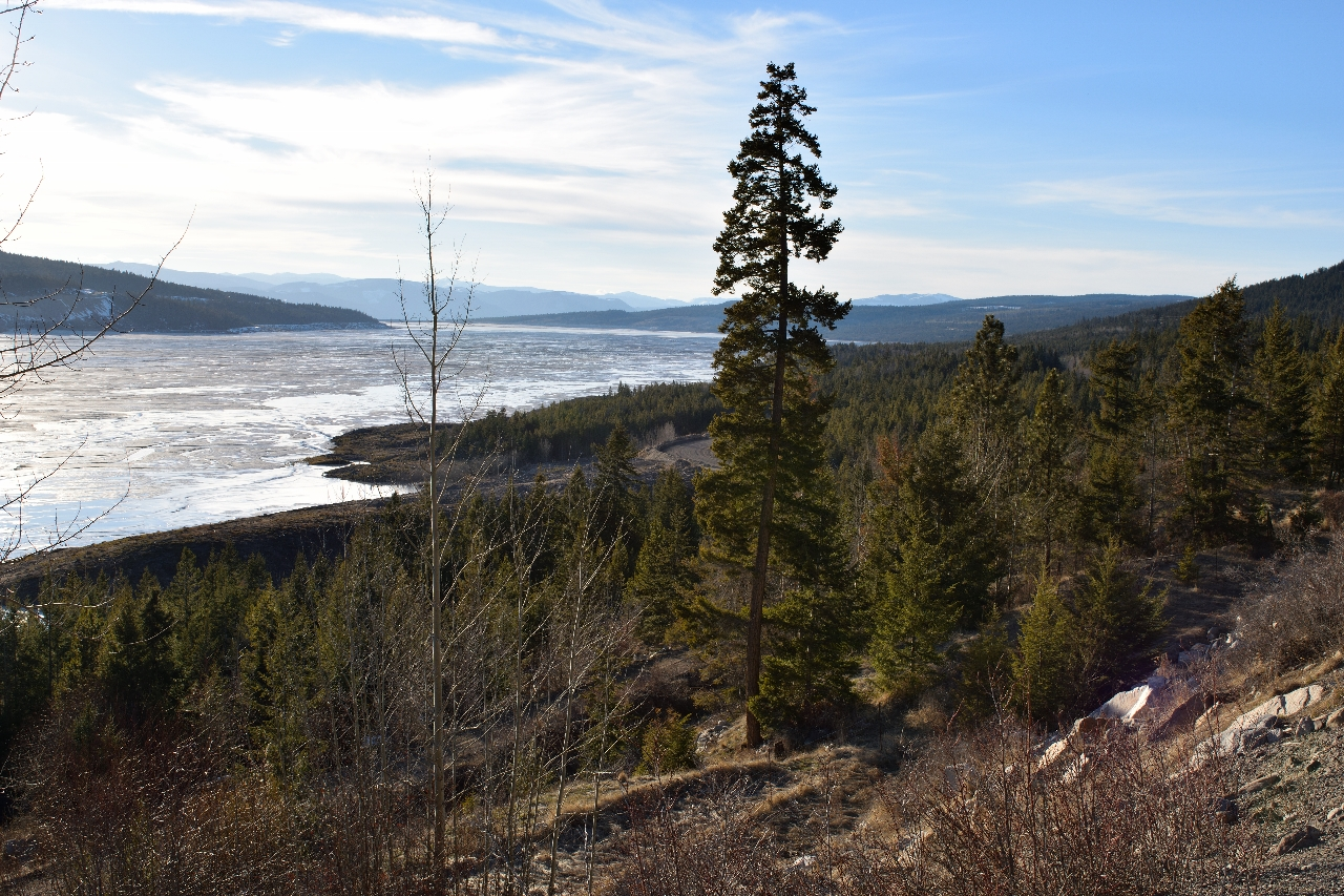 Highland Valley Copper Mine Tailings Lake, near Logan Lake, BC, Canada. The lake pictured is entirely man-made, and spans approximately 10 km in length.